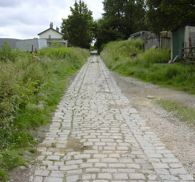 Disused Tram Track Trawden. A few feet of the iron rails remain at the top of the hill